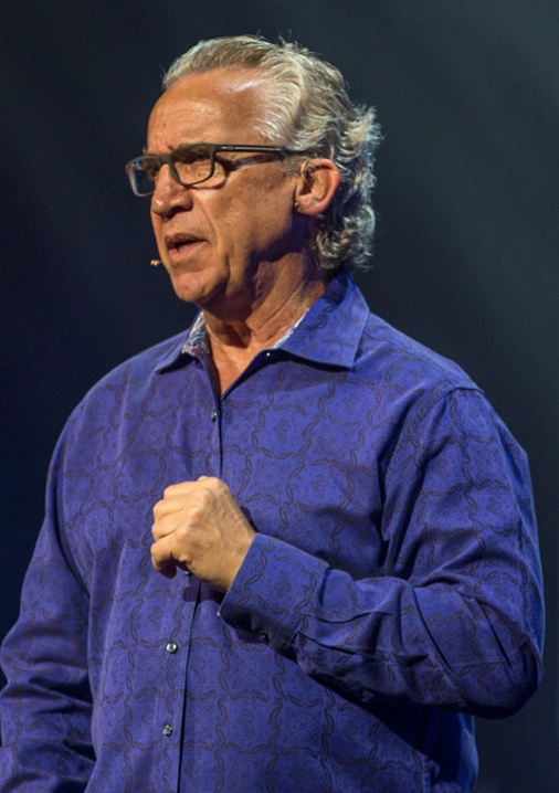 Bill Johnson teaching ata conference